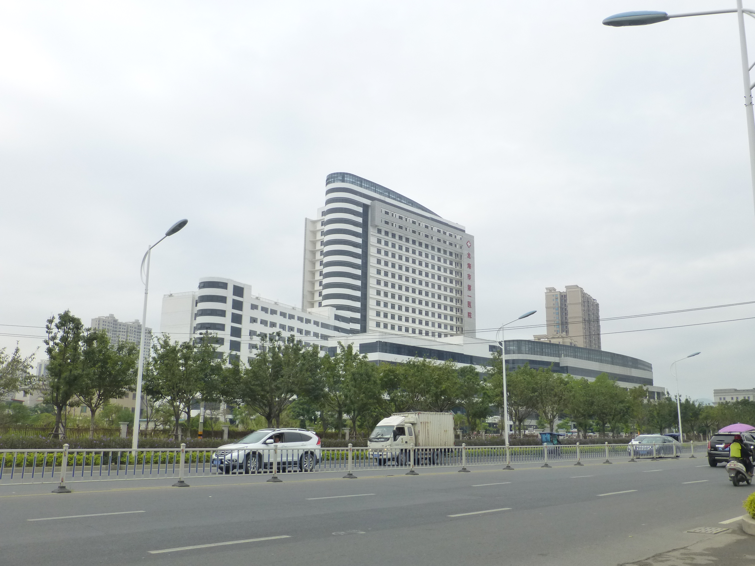 Longhai City, Fujian.